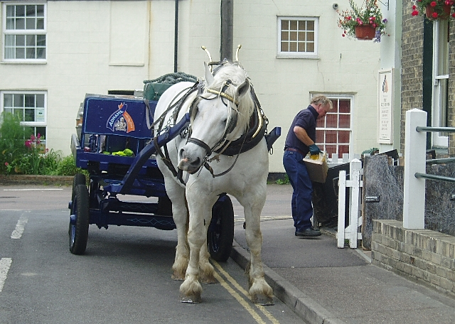 Bowing out. Adnams Brewery in Southwold uses dray horses to make deliveries to its pubs in the town. But not for much longer - the company is building a new distribution centre just outside Southwold (under construction in June 2006) and the horses will be retired.